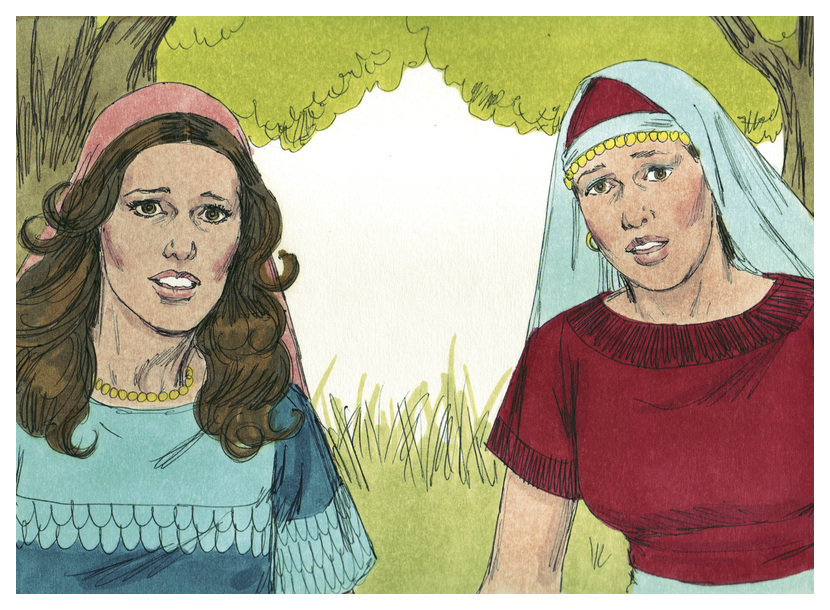 Biblical illustration of Book of Ruth Chapter 1